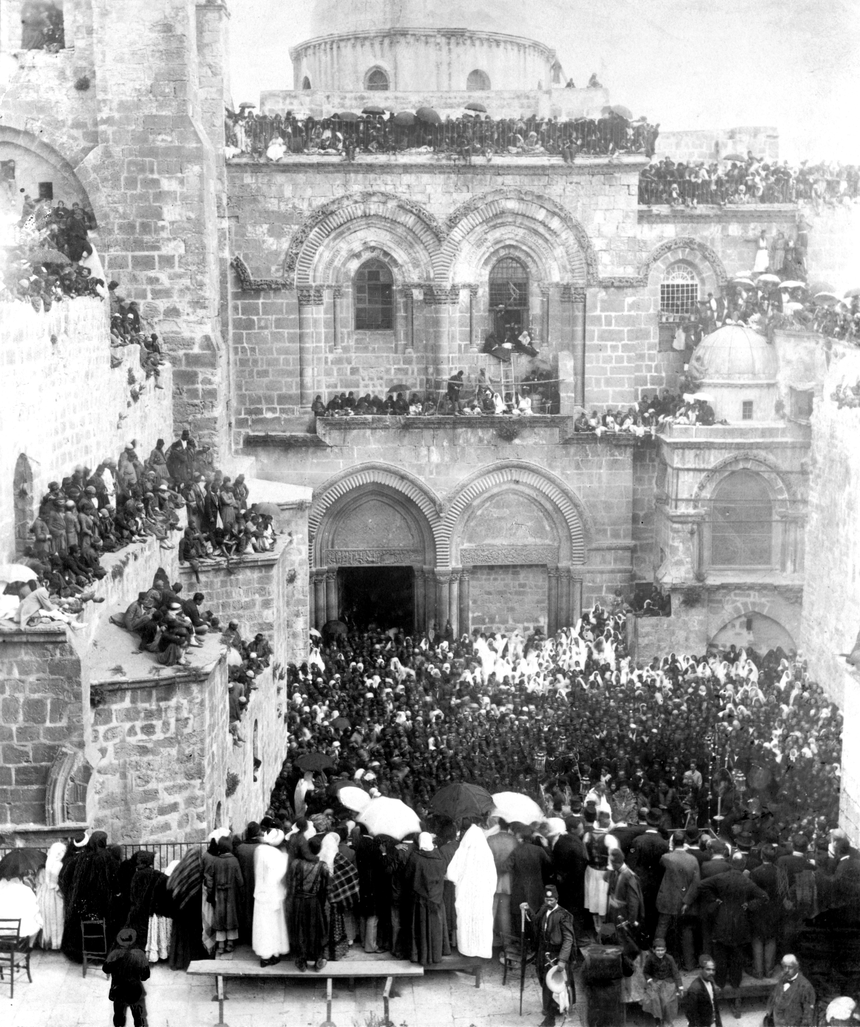 Religious ceremony, Jerusalem.